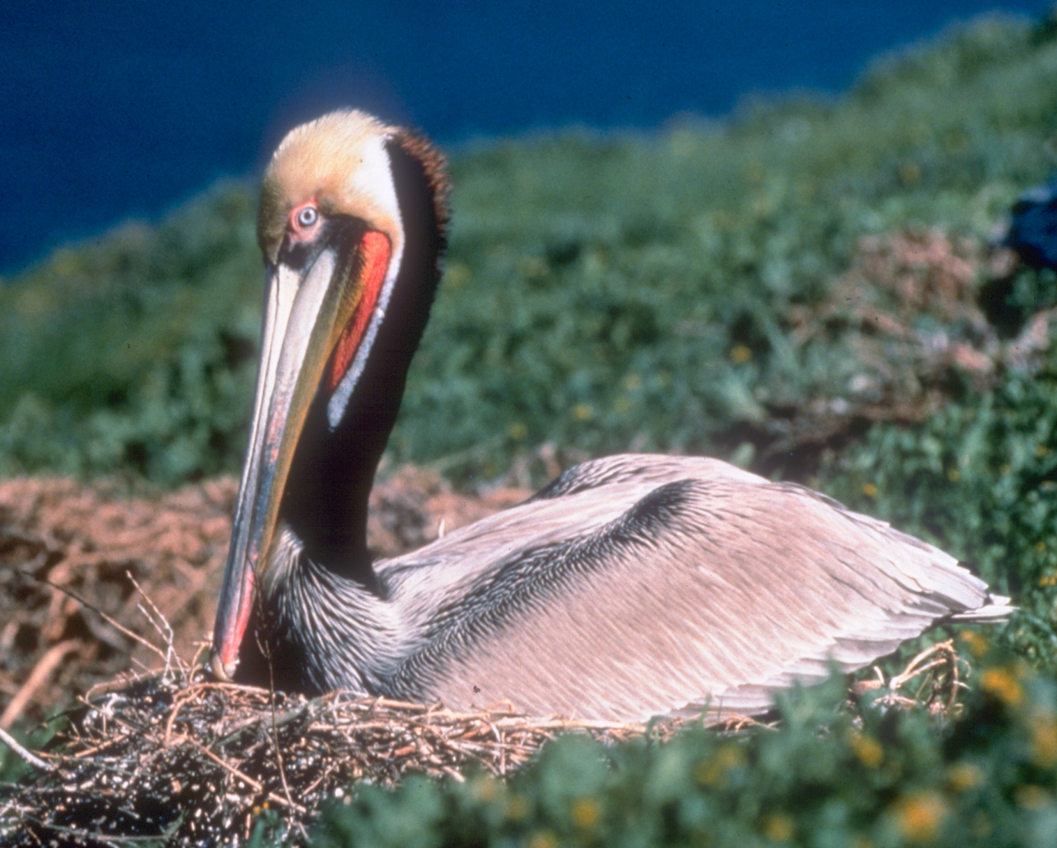 California brown pelican (Pelecanus occidentalis) — at its nest on Anacapa Island, Channel Islands National Park, California. Original Description Decimated by the pesticide DDT during the late 1960s, the endangered California brown pelicans have made a remarkable recovery. West Anacapa is the primary pelican rookery on the west coast of the continent.